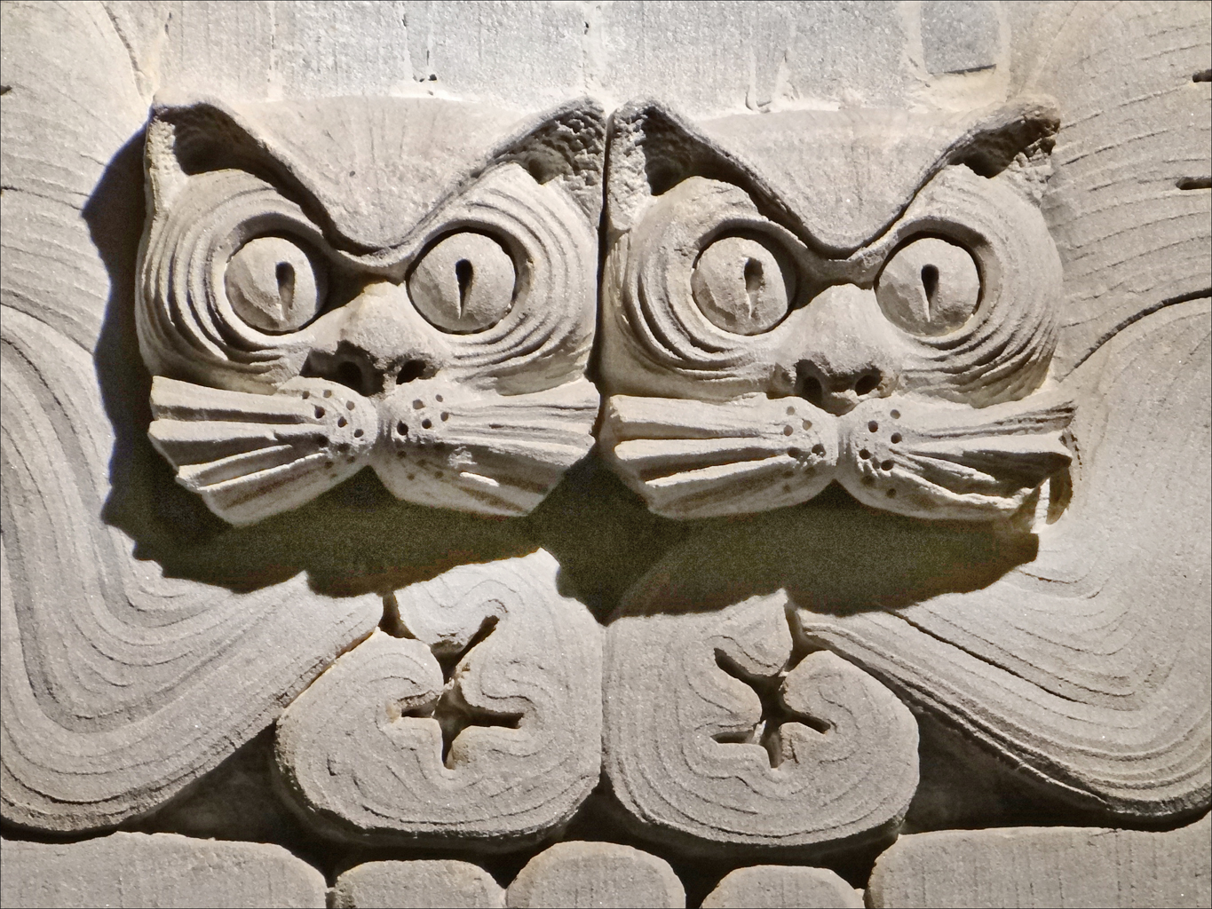 Reliefs on the Jugendsali in Helsinki.